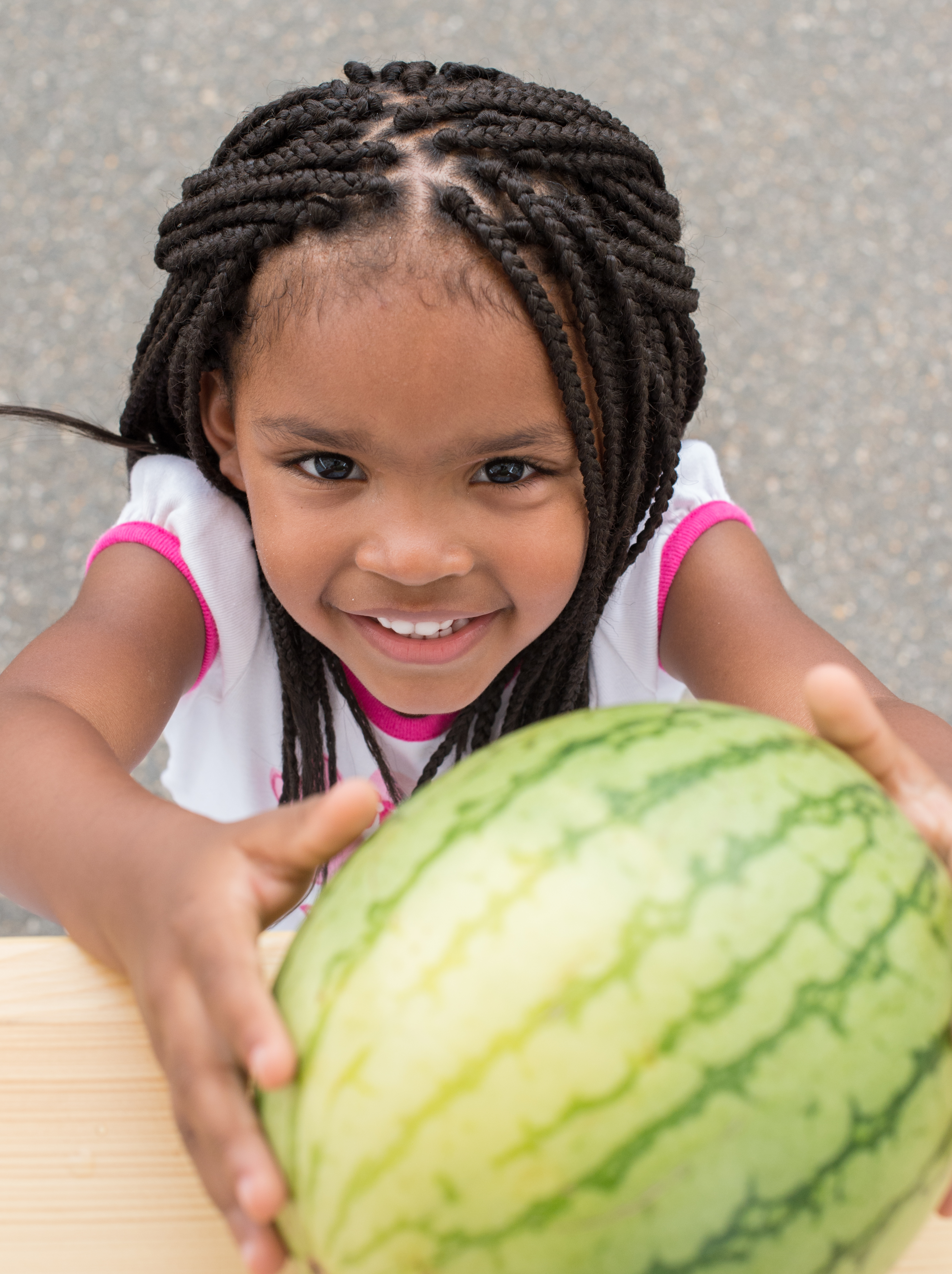 Liah Montgomery (3) helps pick and deliver personal sized watermelon for the U.S. Department of Agriculture (USDA) Farmers Market's VegU recipe demonstration of a Watermelon, Cucumber and Basil Salad on Friday July 15, 2016, in Washington, D.C. USDA Photo by Lance Cheung. Yields 4 to 6 servings Prep Time: 15 minutes | Cook Time: 0 minutes | Total Time: 15 minutes 6 cups watermelon 1 cup cucumber 2 tbsp red onion 1 tbsp red wine vinegar 2 tsp olive oil 2 tbsp basil leaves salt and pepper, to taste 1. Scrub outside of watermelon and let dry. Cut the fruit flesh into 2 inch cubes. 2. Wash and dice cucumber. Peel and finely dice onion. Chop basil. 3. Toss watermelon, cucumber, onion, and basil with vinegar and oil. Add salt and pepper to taste. Serve immediately or cover and refrigerate until ready to serve. Leftovers will keep 1 to 2 days and become quite juicy. • The Cucurbitaceae is an important food plant family and includes cucumber, gherkins, melons, gourds, marrows, squashes, and pumpkins. The fruit, which is botanically called a ‘pepo’ is used as a vegetable or dessert, but other parts of the plant (young leaves, shoots, seeds, and root) may also be consumed as food. The fruit contains a large amount of water and a reasonable amount of vitamin C. Cucurbits are usually climbing plants. • The classification of melons (Cucumis melo) is based on fruit characteristics (surface and flesh) but, because of hybridization, it is not always easy to distinguish between the groups. There are three main cultivar groups of melon: (1) musk melons are distinctly netted, with a raised network on the surface of the skin generally lighter than the overall color of the fruit such as ‘Galia’ melons; (2) cantaloupe melons have a warty or scaly skin but are not netted; (3) winter melons are either smooth or shallowly corrugated but not netted like the popular ‘Honey Dew’ melons. • The scientific name for watermelon is Citrullus lanatus. USDA Photo by Lance Cheung.